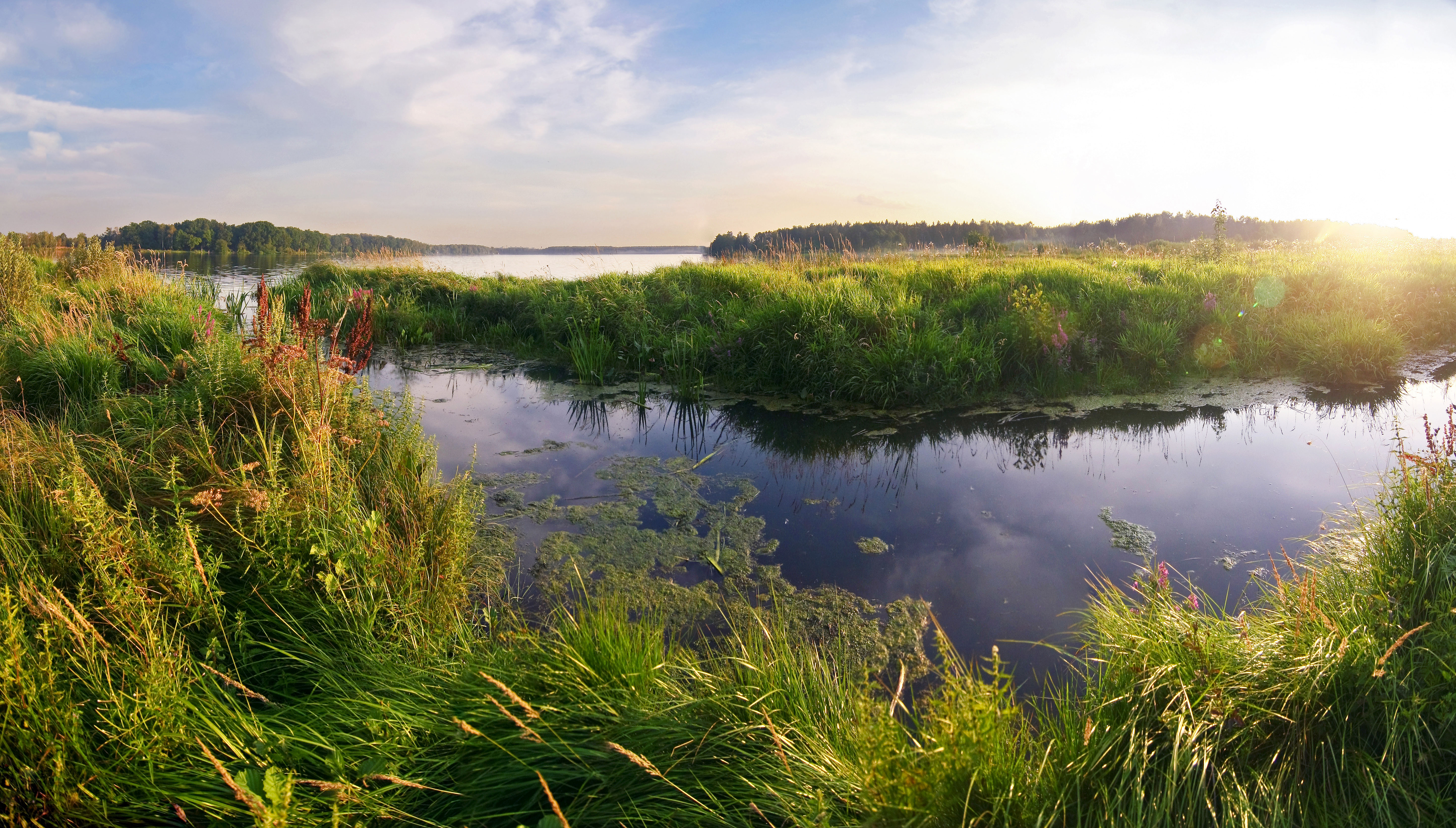 Wetlands near the Moscow region, Russia.